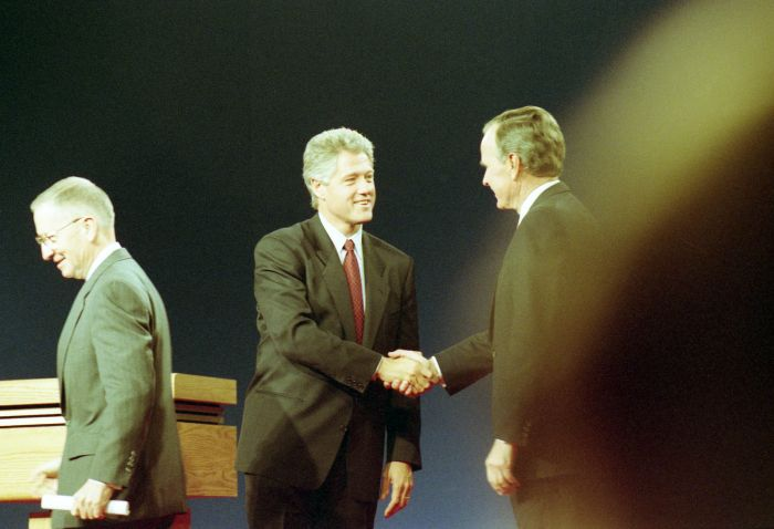 President Bush participates in the third and final Presidential Debate with Governor Bill Clinton and Ross Perot at the Wharton Center, Michigan State University in East Lansing, Michigan with Jim Lehrer, MacNeil-Lehrer News Hour is the debate moderator.